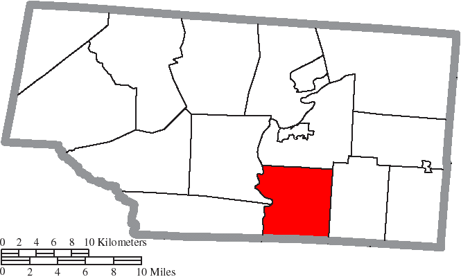 Map of the municipal and township boundaries of Pike County, Ohio, United States, as of the 2000 census, with the location of Scioto Township highlighted. Township borders are shown only in unincorporated areas in order to differentiate incorporated and unincorporated areas more clearly.